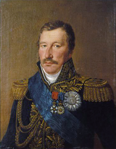 Le Général comte Dirk van Hogendorp (1762-1822), aide de camp de Napoléon Ier